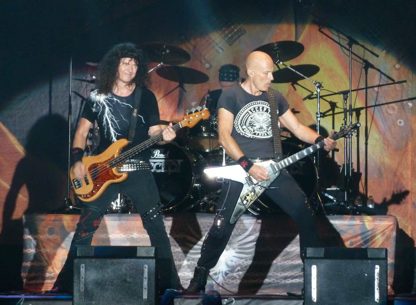 Peter Baltes and Wolf Hoffmann, guitarists of the German heavy metal band Accept performing at Kavarna Rock Fest 2013, Bulgaria.